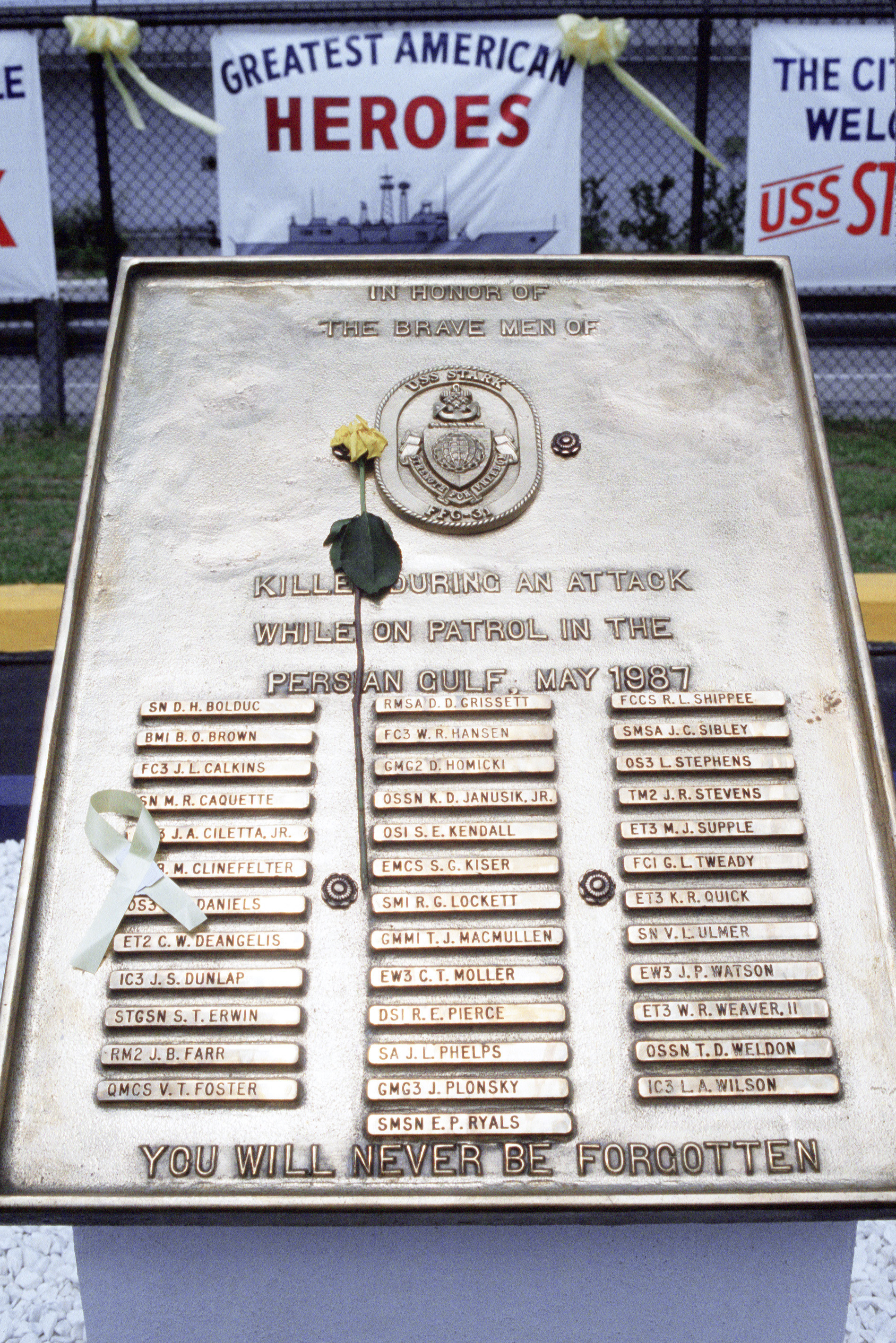 A single yellow rose lies atop a memorial plaque honoring the 37 crewmen of the guided missile frigate USS STARK (FFG 31) who were killed in the explosion and fires caused by tow Iraqi-launched Exocet anti-ship missiles that struck the ship... Location: NAVAL STATION, MAYPORT, FLORIDA (FL) UNITED STATES OF AMERICA (USA)